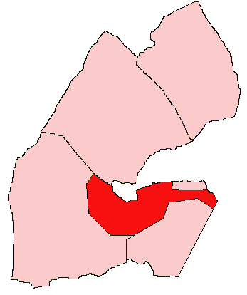 Map of the Djibouti showing Arta Region